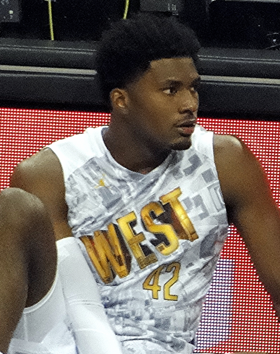 American college basketball player Justise Winslow